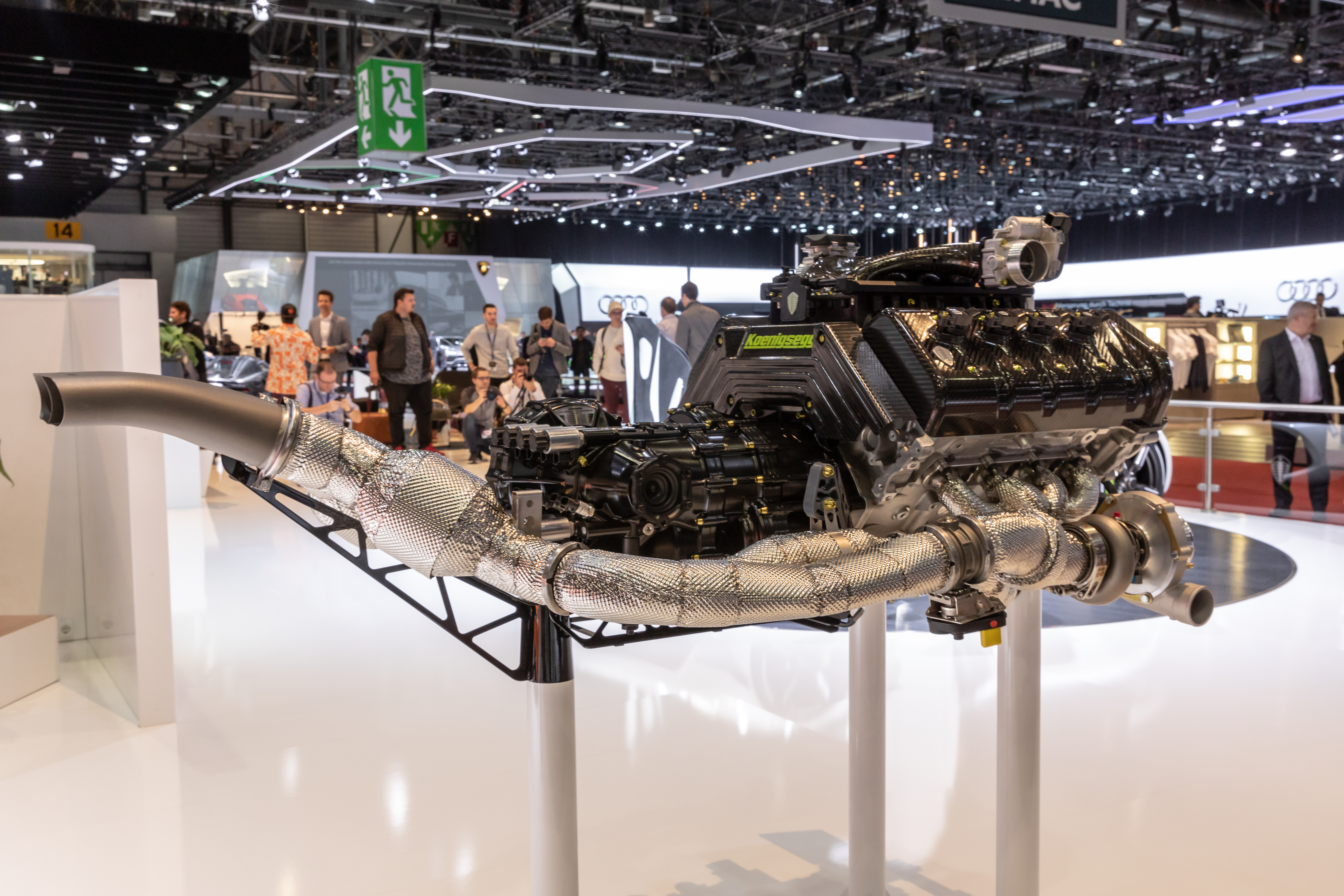 Geneva International Motor Show 2019, Le Grand-Saconnex